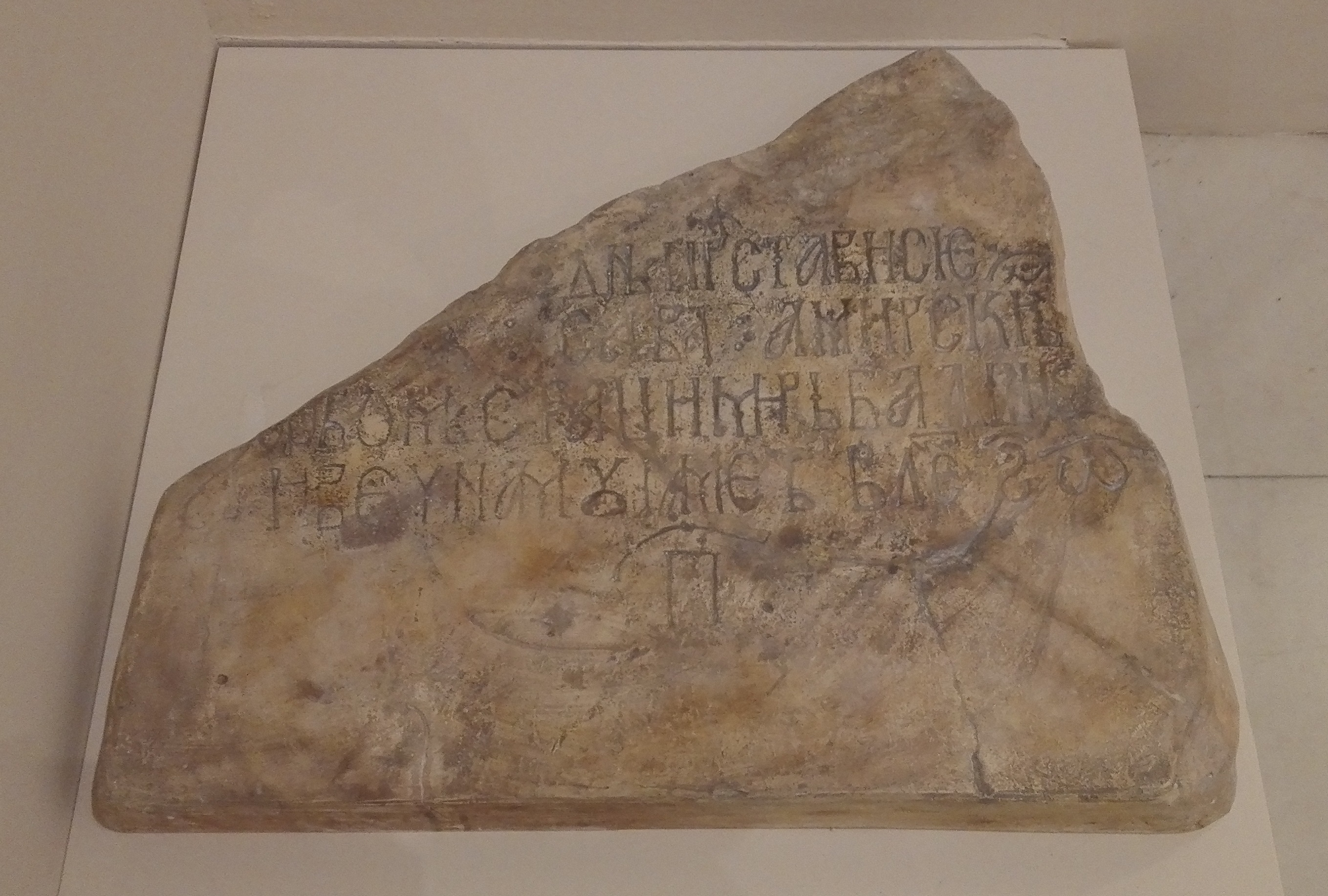 Grave inscription of Stracimir Balšić, monastery of Saint Archangels near Prizren, 1371/1372, copy. Copied by Miroljub Stamenković, 1979. National Museum in Belgrade (original in the Museum of Macedonia, Skopje)